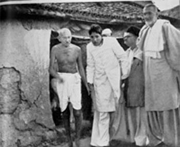 Mohandas Karamchand Gandhi touring Bela, Bihar, India, a religious riot stricken village in March 1947. Shown with him is Badshah Khan